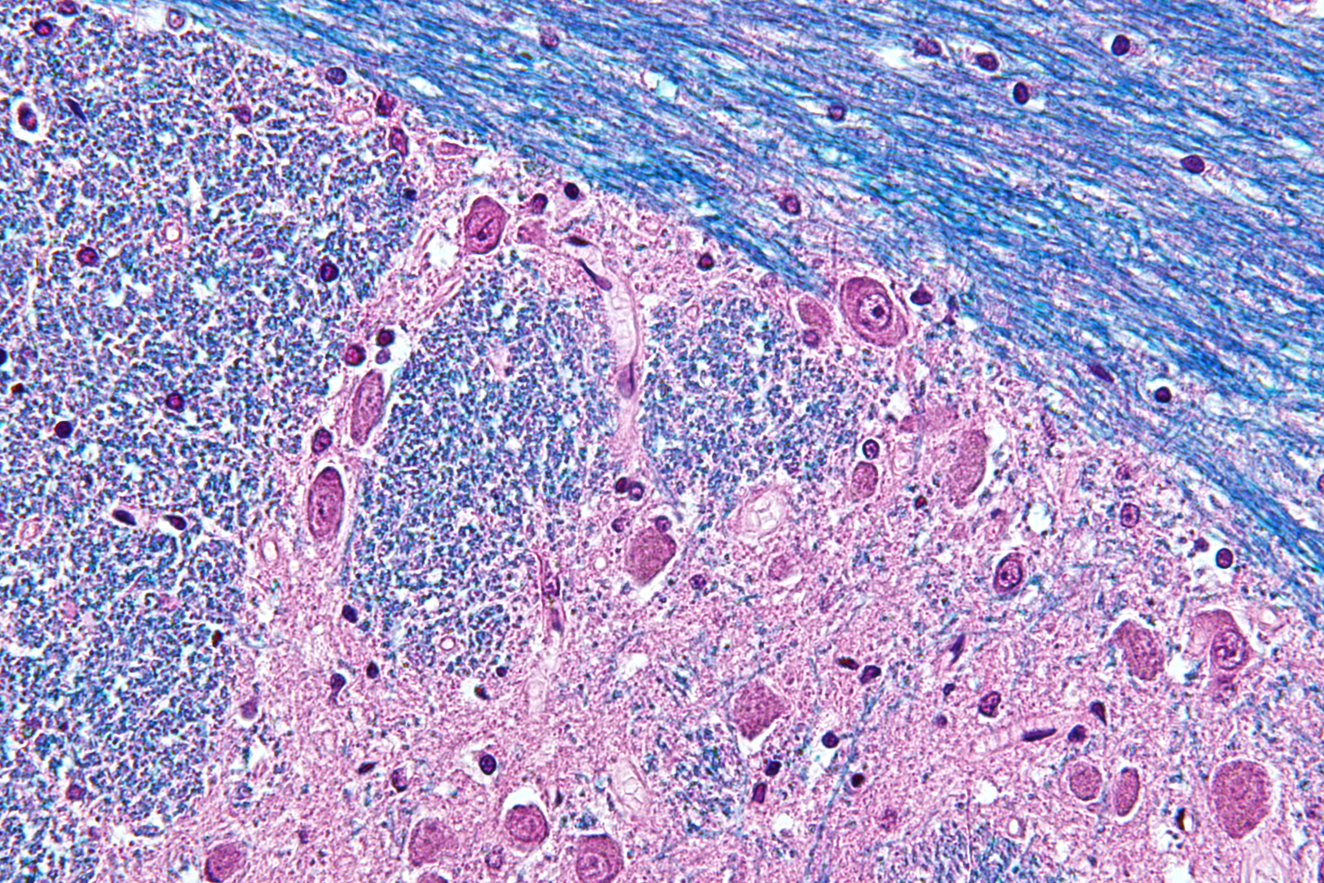 Very high magnification micrograph of the pons. H&E-LFB stain. Related images Intermed. mag. High mag.